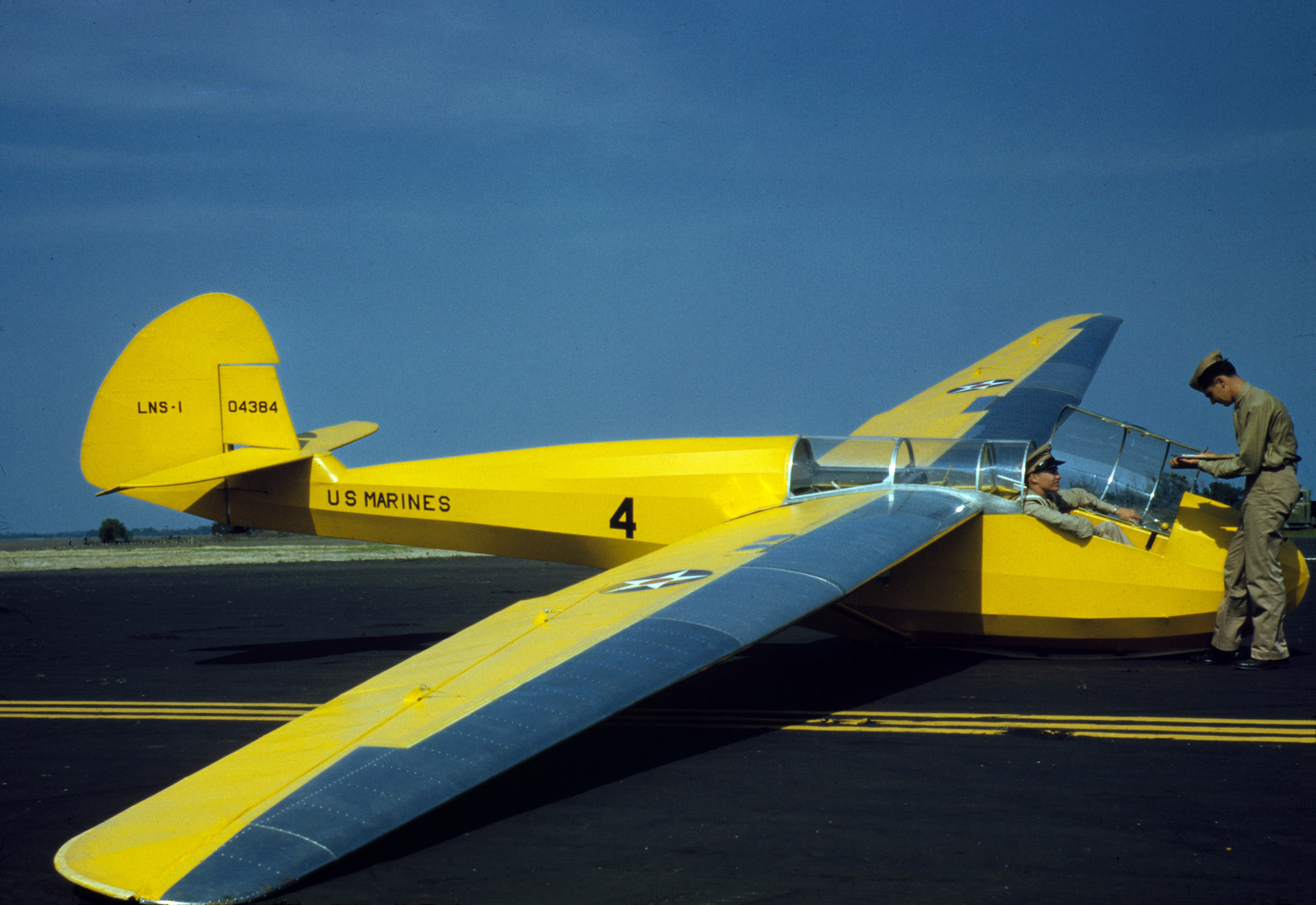 A U.S. Marine Corps Schweizer LNS-1 (Model SGS 8-2) gliders (BuNo 04384) at of Parris Island, South Carolina (USA), in May 1942.